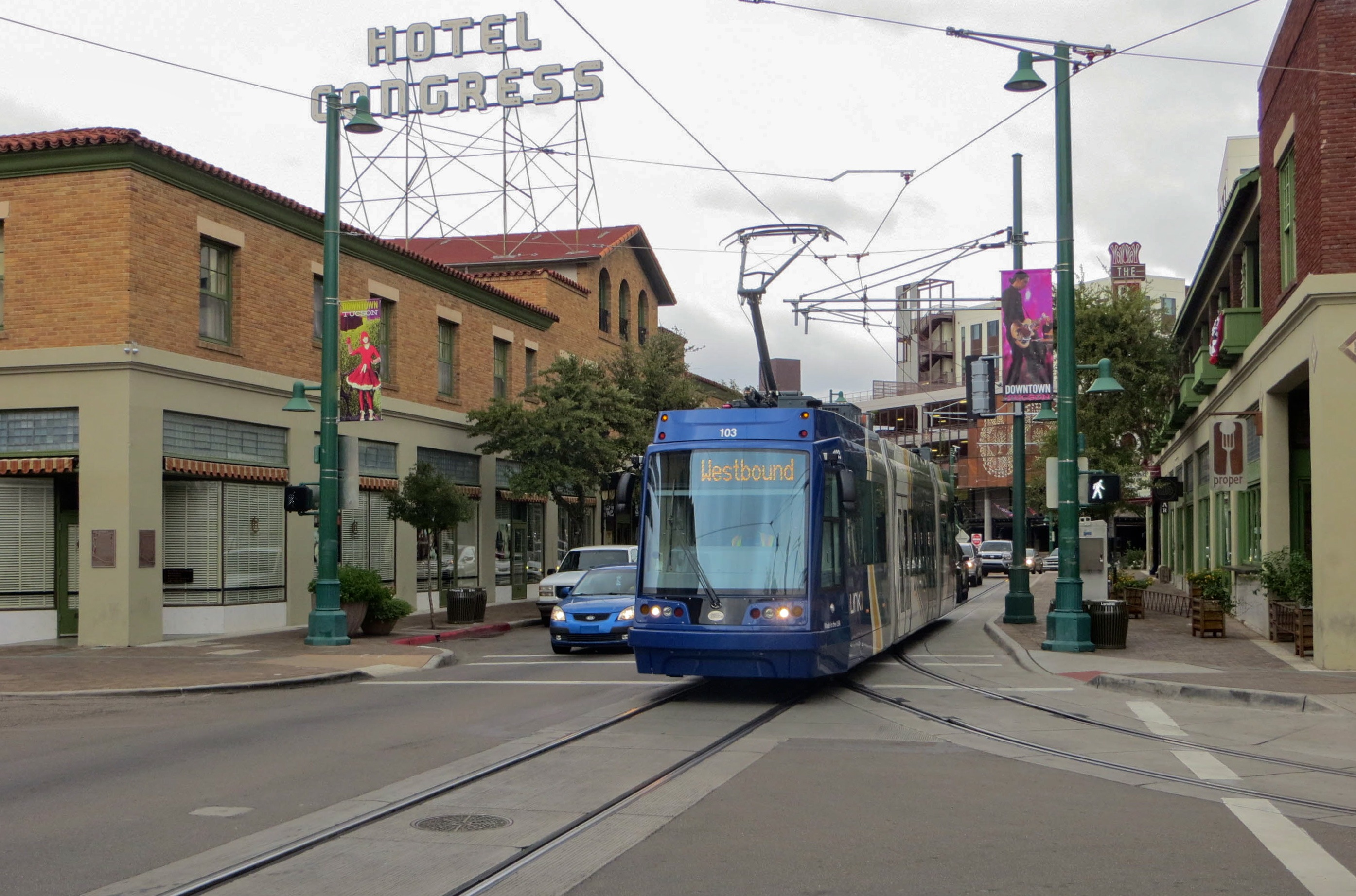 Car No. 103 of the Sun Link system in Tucson, Arizona, westbound on Congress Street at 5th Avenue.